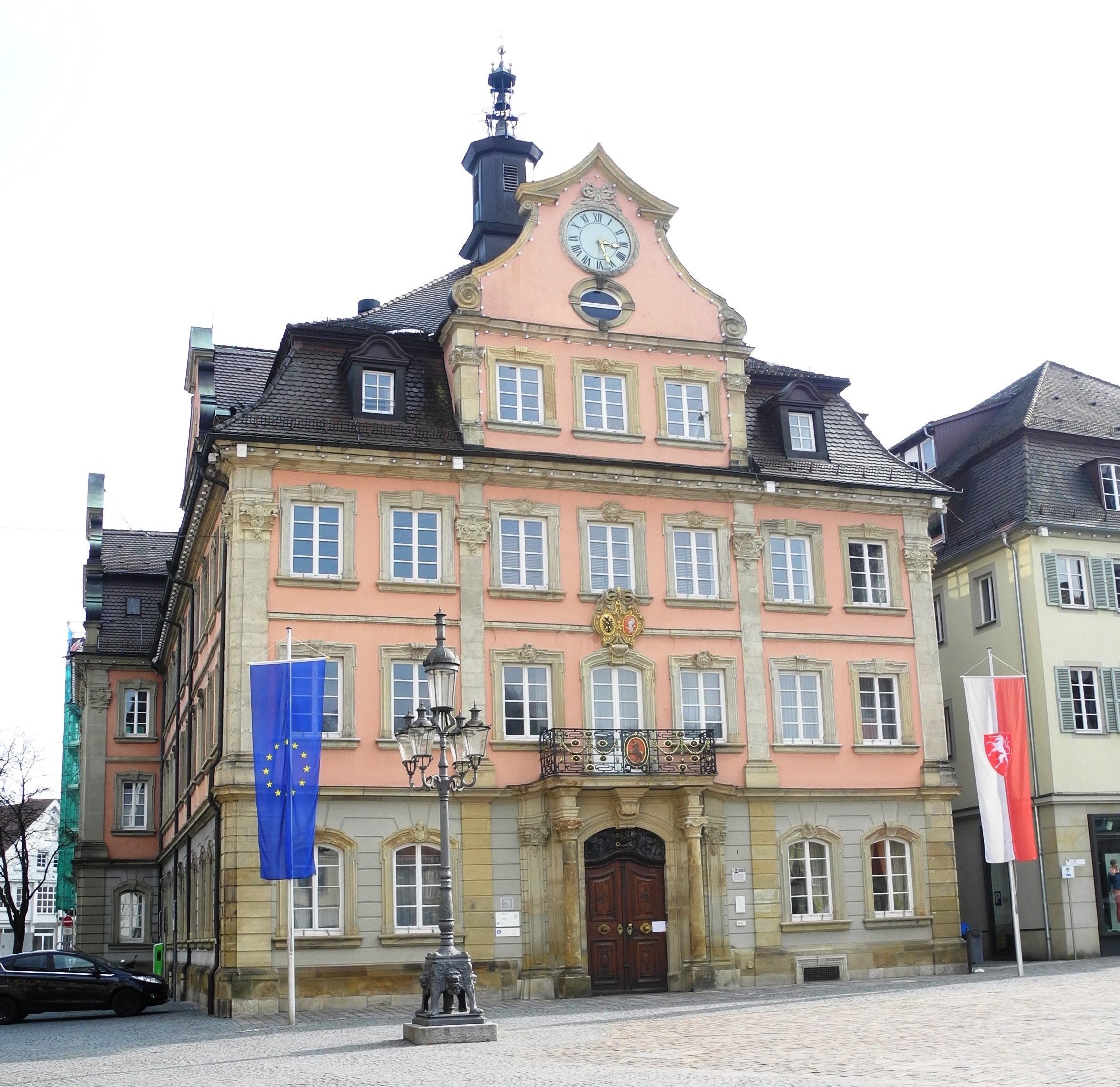 twonhall of Schwaebisch Gmuend